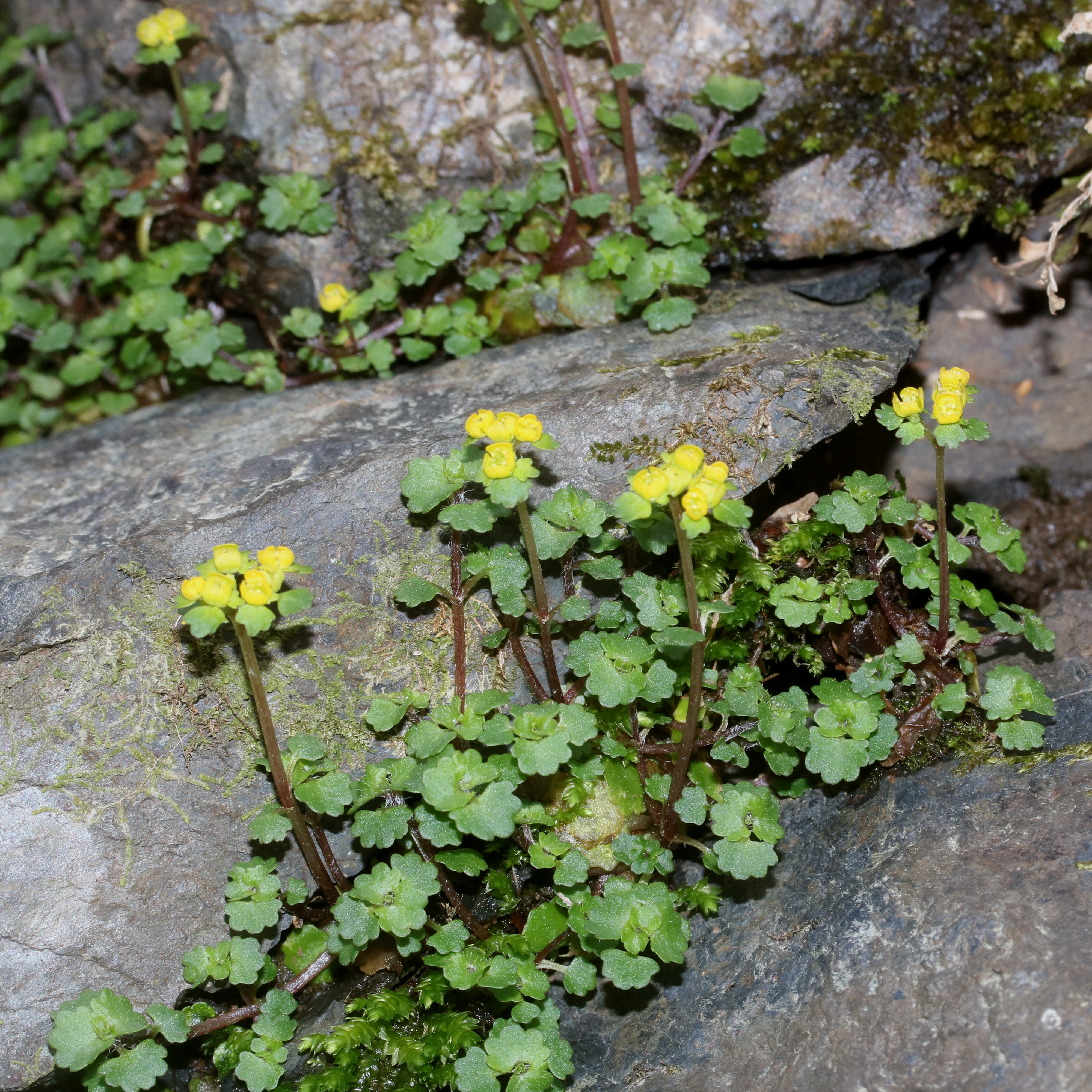 Chrysosplenium pilosum var. sphaerospermum in Yoro Mountains, Ogaki, Gifu Prefecture, Japan.